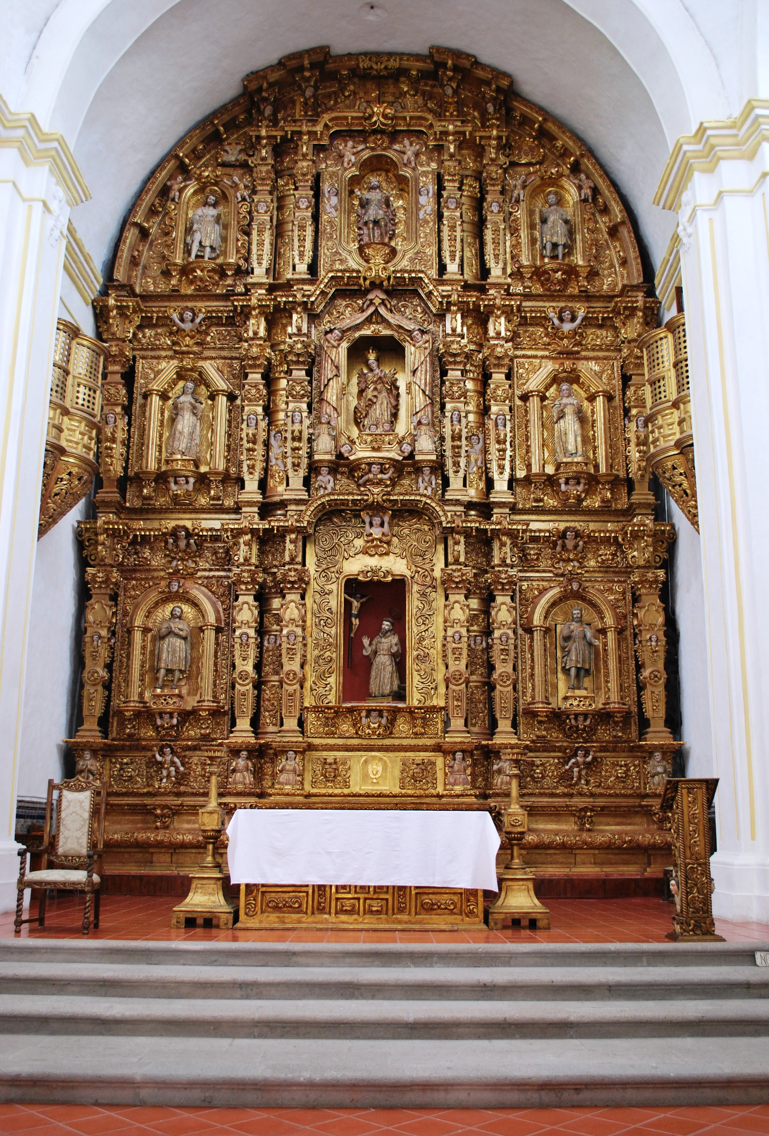 Main altar of the Chapel of The 3rd. Order of Saint Francis. Tabernacle in the Cathedral complex of Cuernavaca, Morelos, Mexico